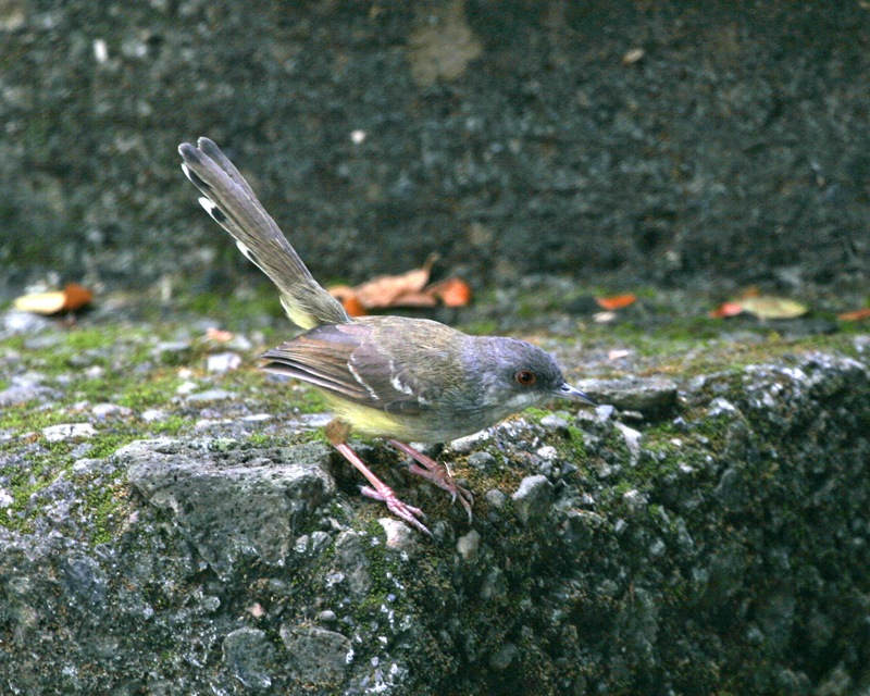 Bar-winged Prinia (Prinia familiaris) hotel near International Airport, Jakarta ,Java, Indonesia November 19, 2005 Distribution: _MG_7574